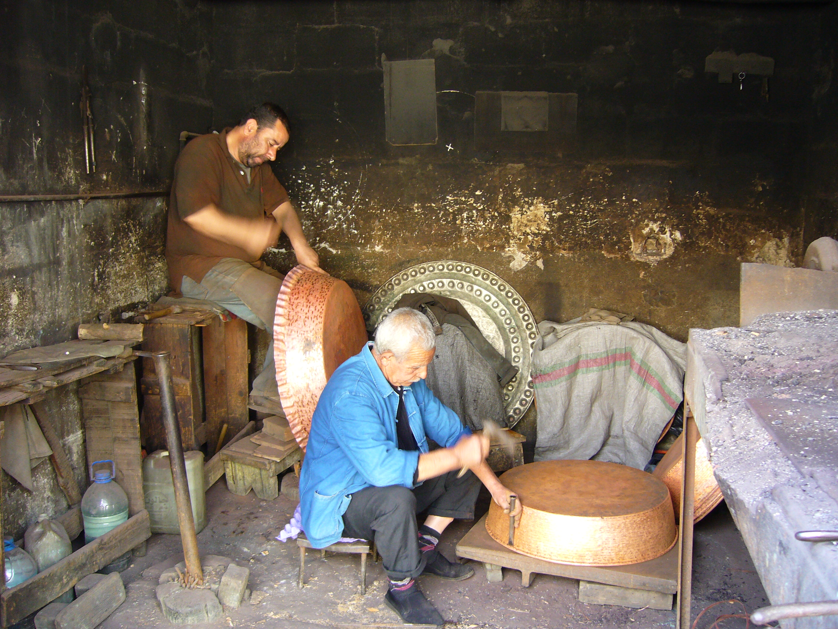 Copper craftsmen in Constantine